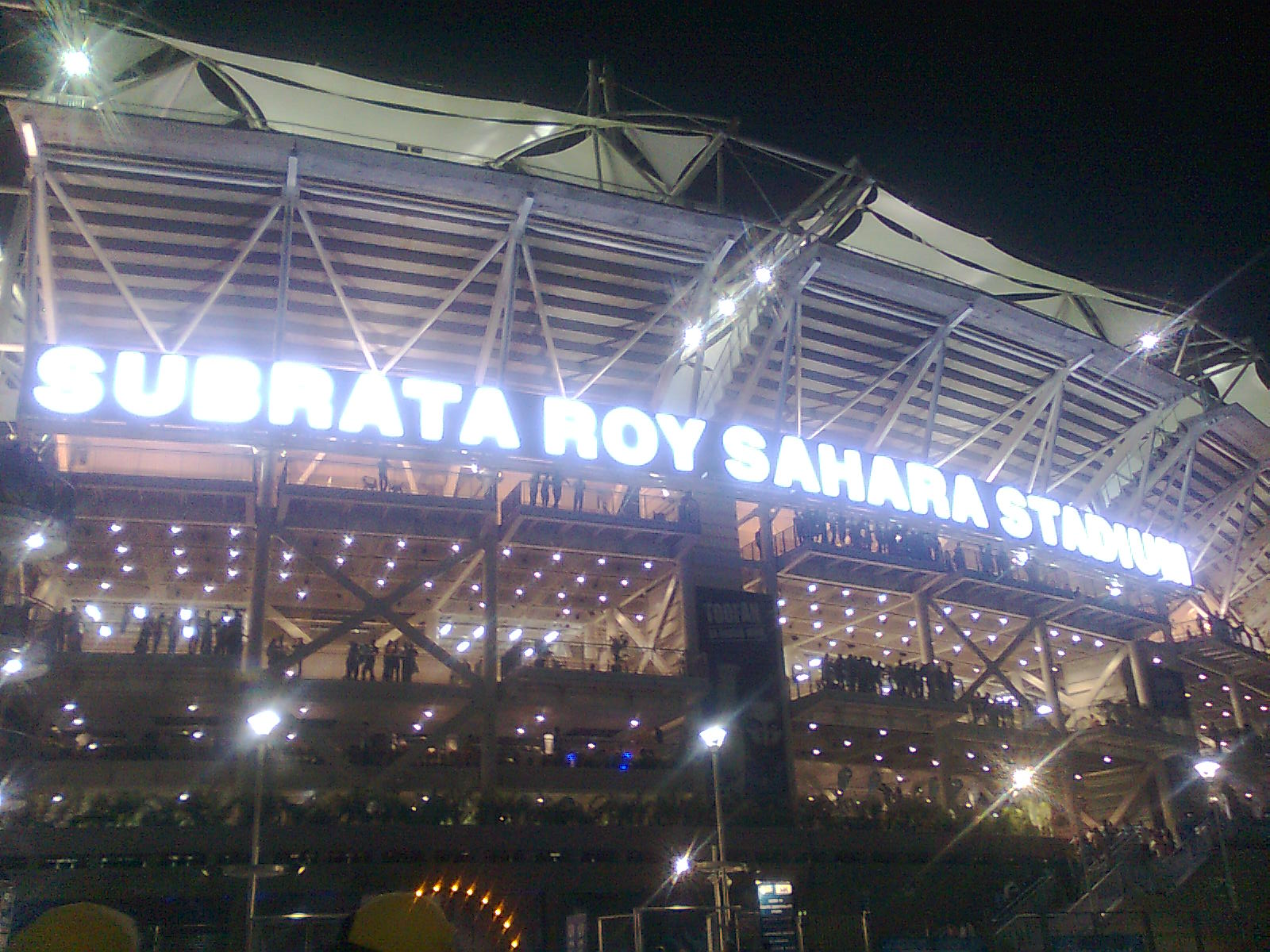 A view of the Subroto Roy Sahara Stadium from outside the stadium